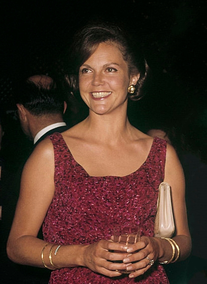 Maria Pia of Jugoslavia wearing a dark red dress and smiling with a glass in her hands, at the wedding party of Duke Amedeo of Aosta and Princess Claude of Orlèans. Sintra (Portugal), 22nd July 1963